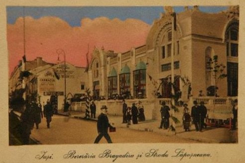 Lapusneanu Street, Iasi, Romania